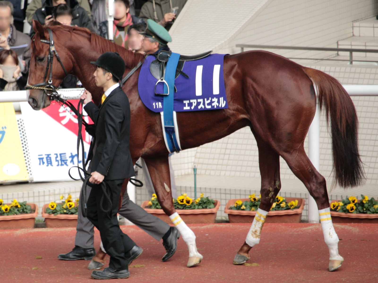 Air Spinel (Racehorse of Japan).